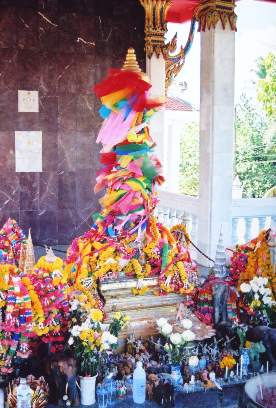 Inside the City pillar shrine (Lak Mueang) of Trang. The phallic sculptured covered with colorful clothes is the actual city pillar.